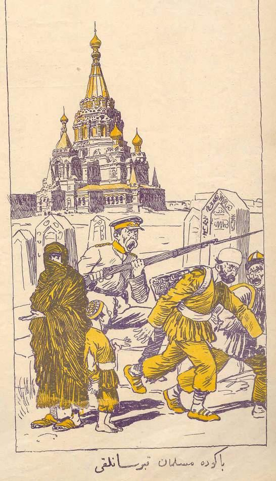 Cartoon from Molla Nasreddin magazine depicting Baku Muslims being forced to abandon their cemetery in favor of the Alexander Nevsky Cathedral construction. The title in Azerbaijani reads: "A Muslim cemetery in Baku."